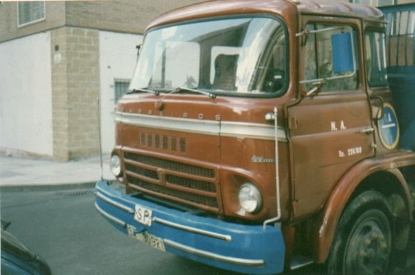 Barreiros Super Azor photographed in Salamanca, Spain.